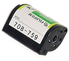 IX240 (Advanced Photo System) Film Cartridge